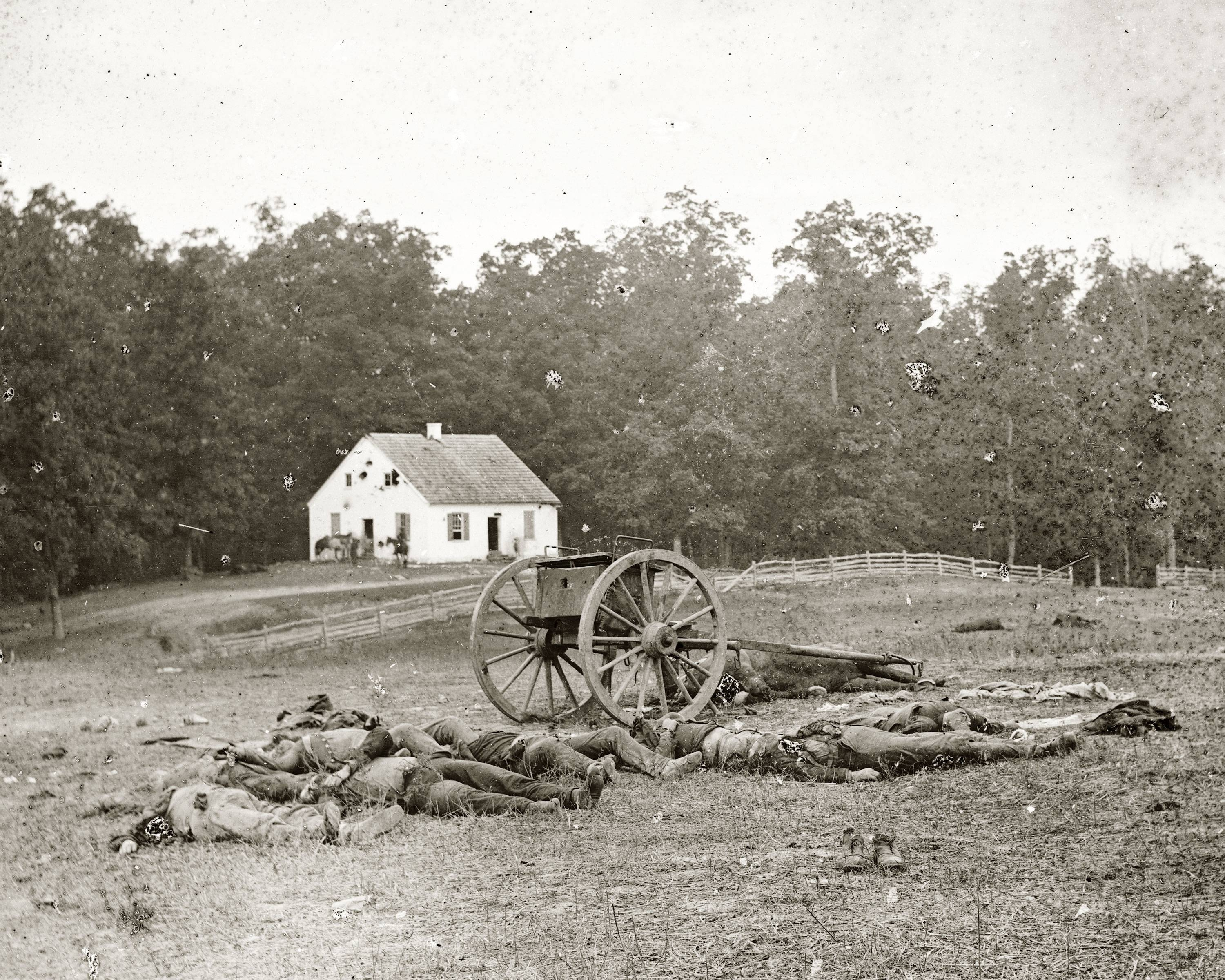 The Dunker Church to the north of Sharpsburg, Maryland marks where one of the bloodiest battles in American history would begin at dawn on September 17, 1862. Here, both Union and Confederate dead lay together on the field.